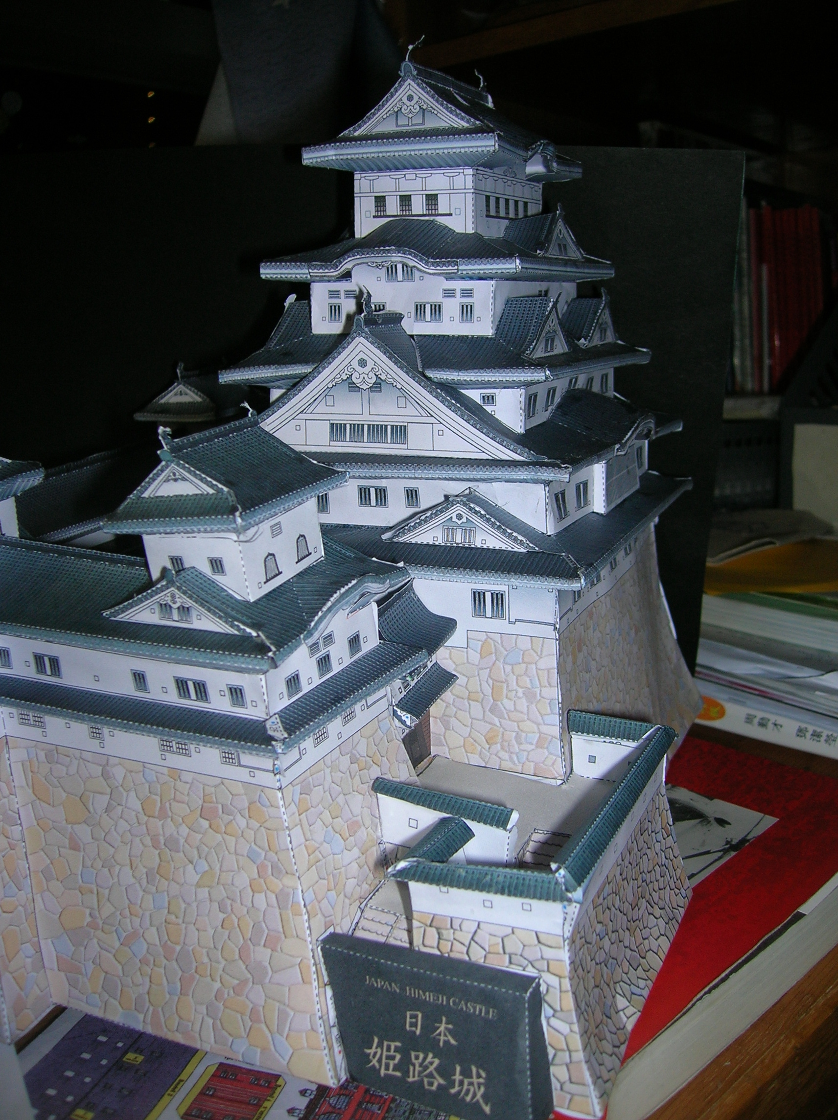 Paper model of Himeji Castle.